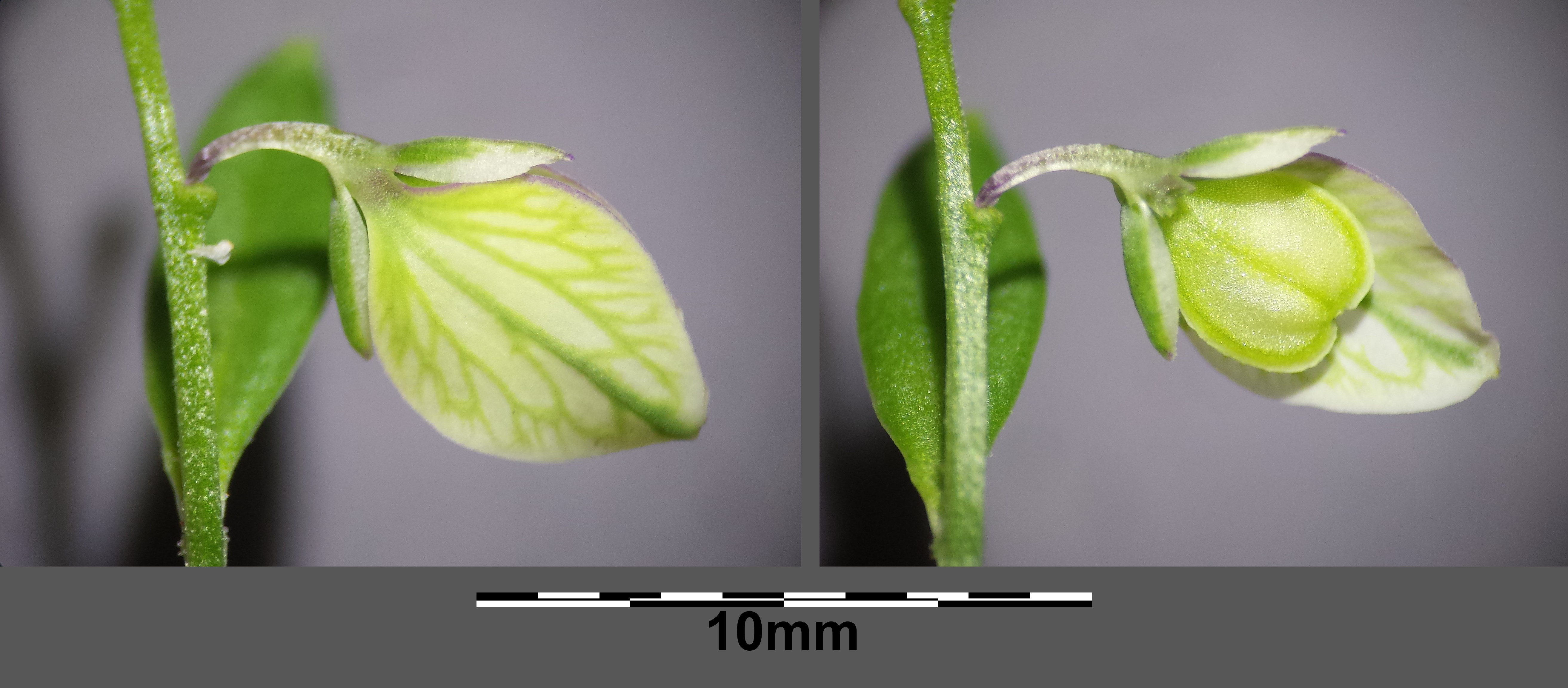 Fruit, on the right front wing removed Taxonym: Polygala vulgaris subsp. vulgaris ss Fischer et al. EfÖLS 2008 ISBN 978-3-85474-187-9 Location: nearby Riebeis, Rappottenstein, district Zwettl, Lower Austria - ca. 750 m a.s.l. Habitat: wayside